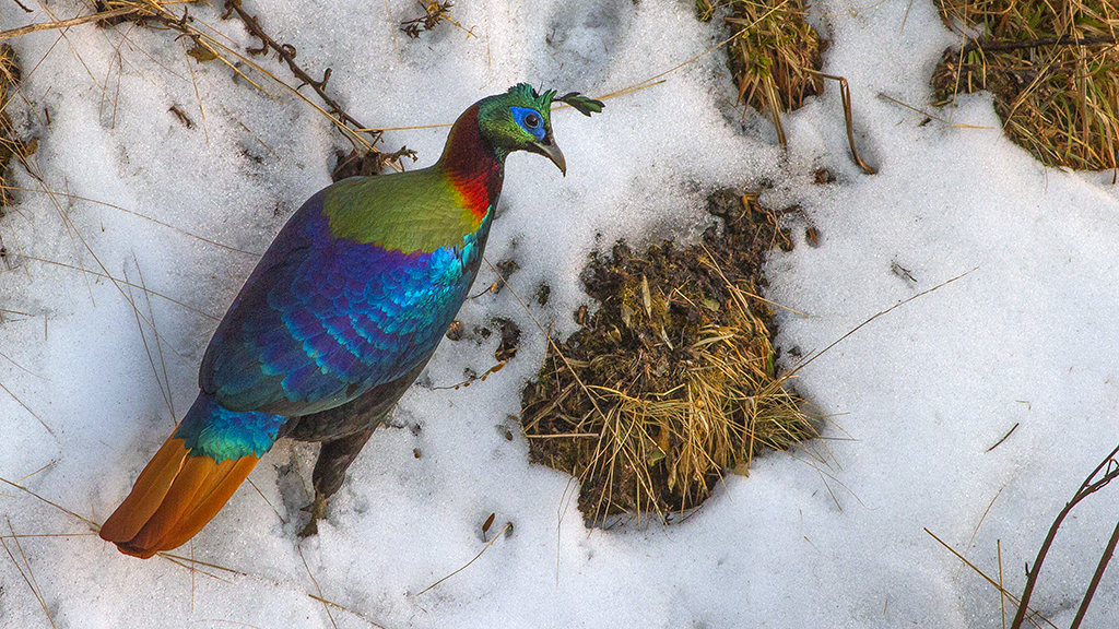 The species Himalayan Monal had been photographed at Pangolakha Wildlife Sanctuary during the birding trip of GoingWild in East Sikkim, India on 13.02.2016.